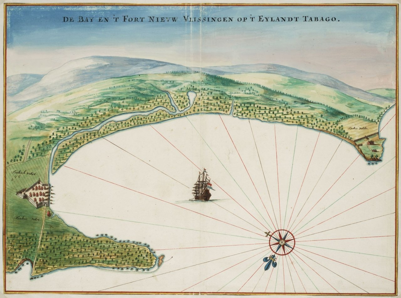 Plan of Nieuw Vlissingen (near modern Plymouth), Tobago